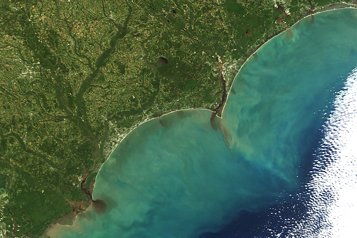 On October 9, 2016, the Moderate Resolution Imaging Spectroradiometer (MODIS) on NASA’s Terra satellite captured this image of floodwaters laden with sediment pouring out from several rivers in North Carolina and South Carolina. Colored dissolved organic matter may have contributed to the dark color of the river water as it spilled into the Atlantic Ocean.